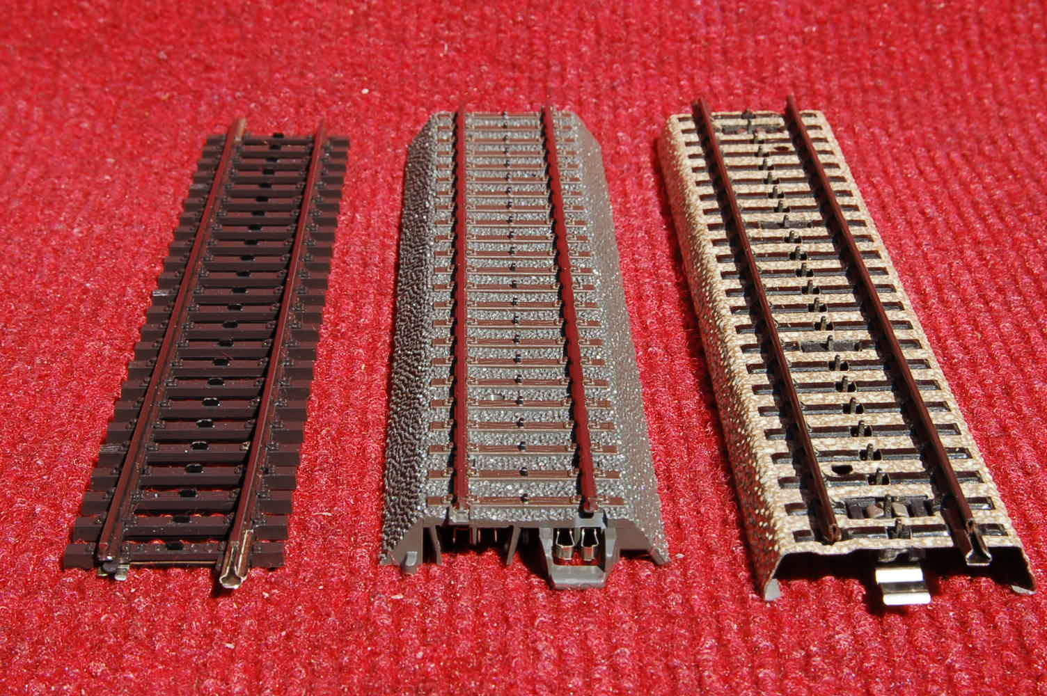 Three different kinds of Märklin model railway track, showing off the three-rail AC system. Note the contact pins on the ties.